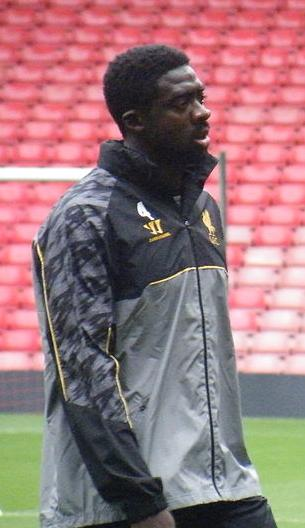 Kolo Touré during open training session at Anfield in August 2013.